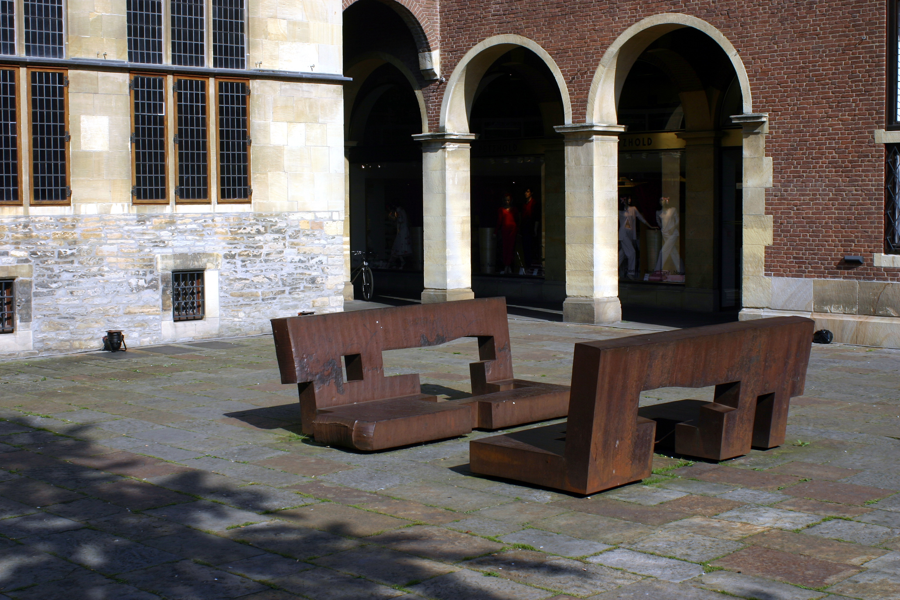 Eduardo Chilida: "Toleranz durch Dialog" (tolerance by dialogue), 1993, Münster (Germany)